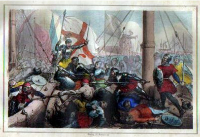 Lithograph of the Battle of Meloria (1284) by Armanino Ligure: "Battaggia da Meloia" litugrafia öttuçentesca de l'Armanin.